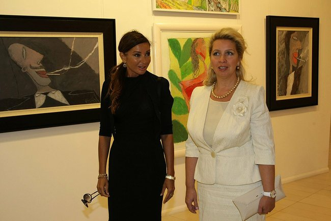 Svetlana Medvedeva and Mehriban Aliyeva in Baku. Baku Museum of Modern Art.